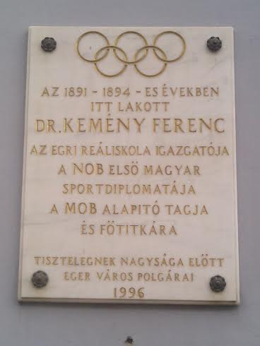 dr. Ferenc Kemény's plaque on his home in Eger.